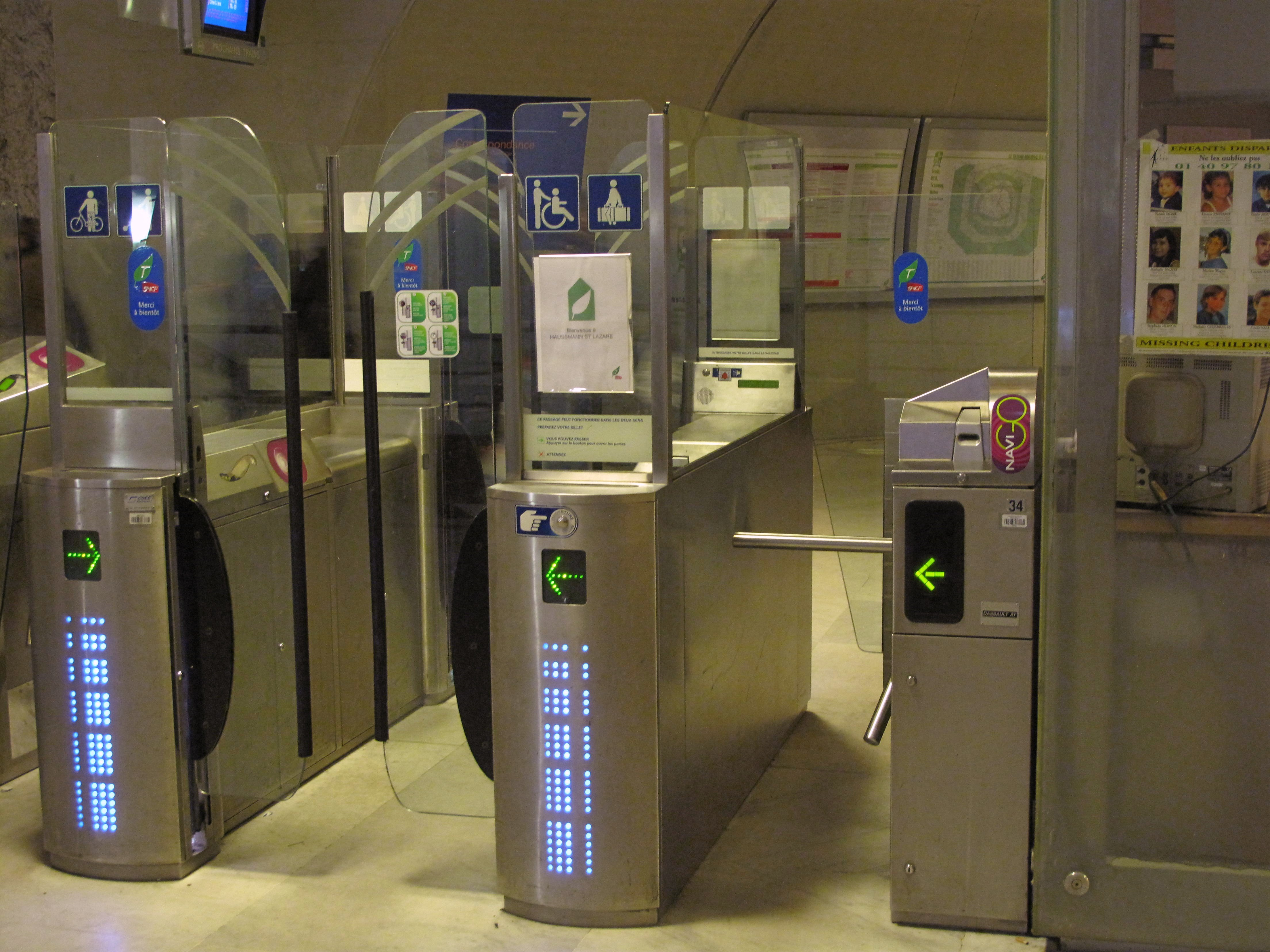 Turnstile for disabled people, baby stroller or people with luggages. With a standard turnstile on the right. Station Haussmann Saint-Lazare